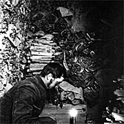 Pelliot reviews manuscripts at Tun-huang, China. As he died in 1945 and this picture was taken in China, its copyright would have expired in 1995 there.